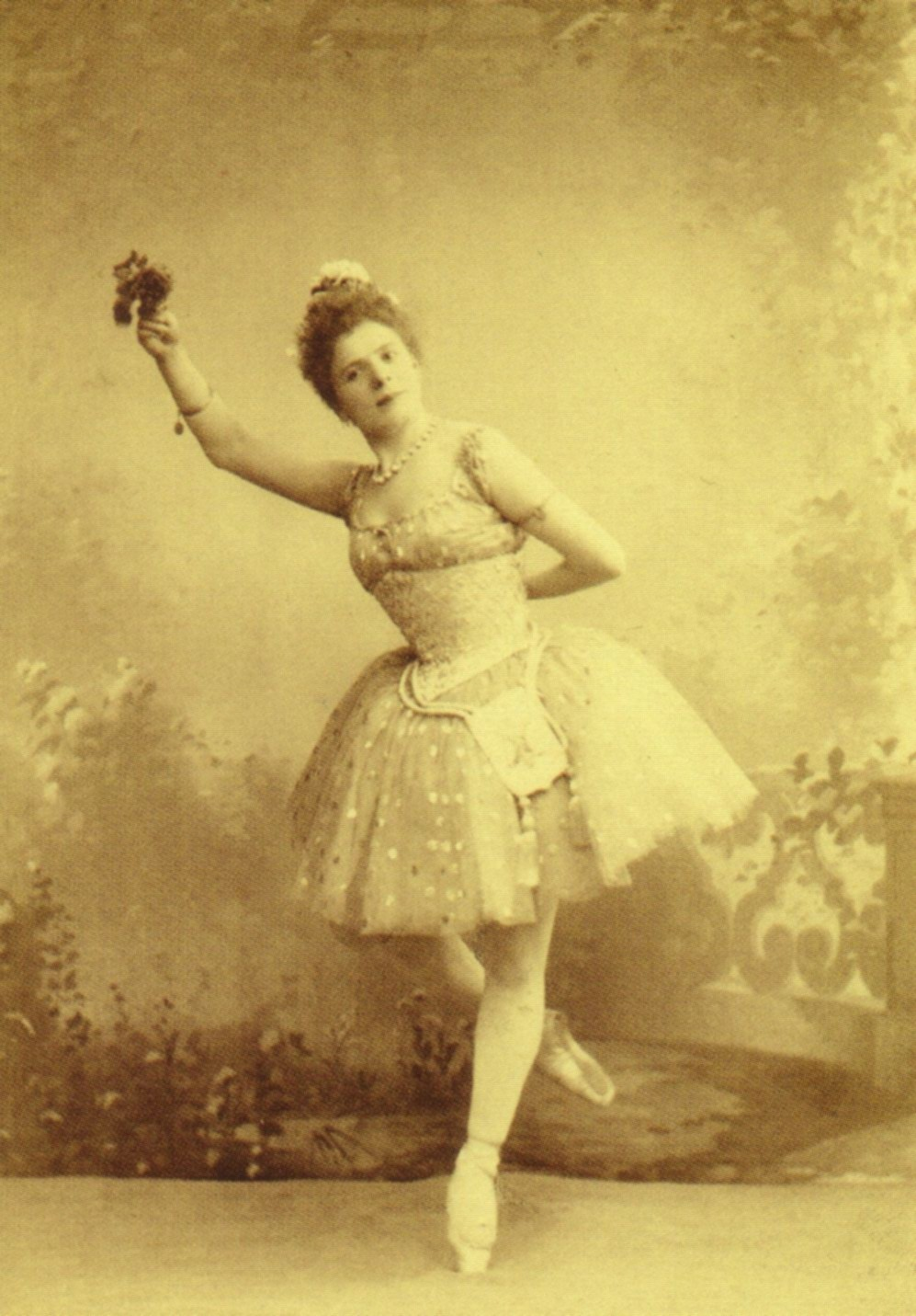 Photograph of Pierina Legnani (1863-1923), Prima ballerina assoluta of the St. Petersburg Imperial Theatres. She is costumed for the first act of the original production of the choreographer Marius Petipa (1818-1910) & the composer Alexander Glazunov's (1865-1936) 1898 ballet "Raymonda".